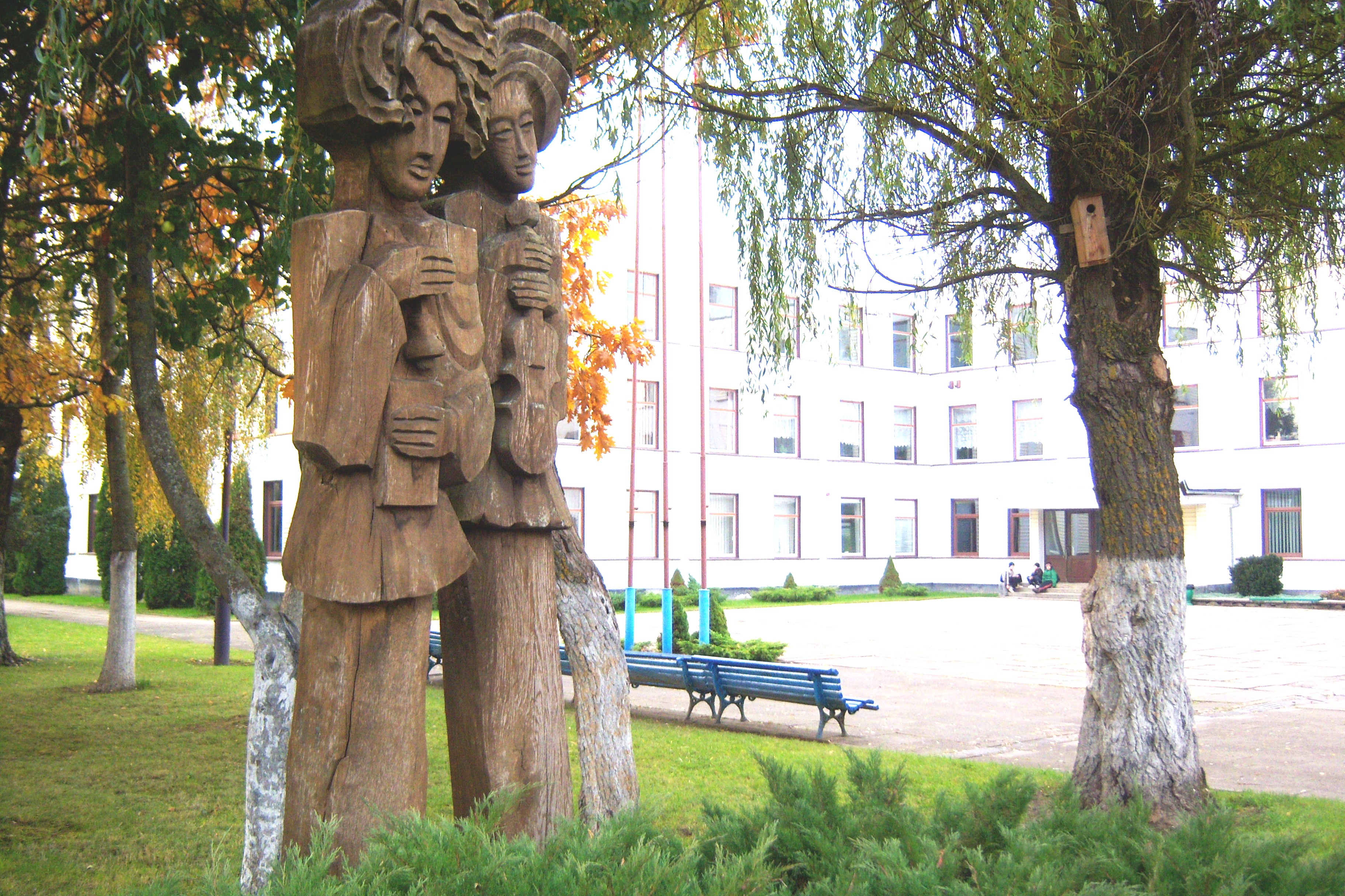 Skuodas, Bartuva Secondary School, wooden musicians, Lithuania